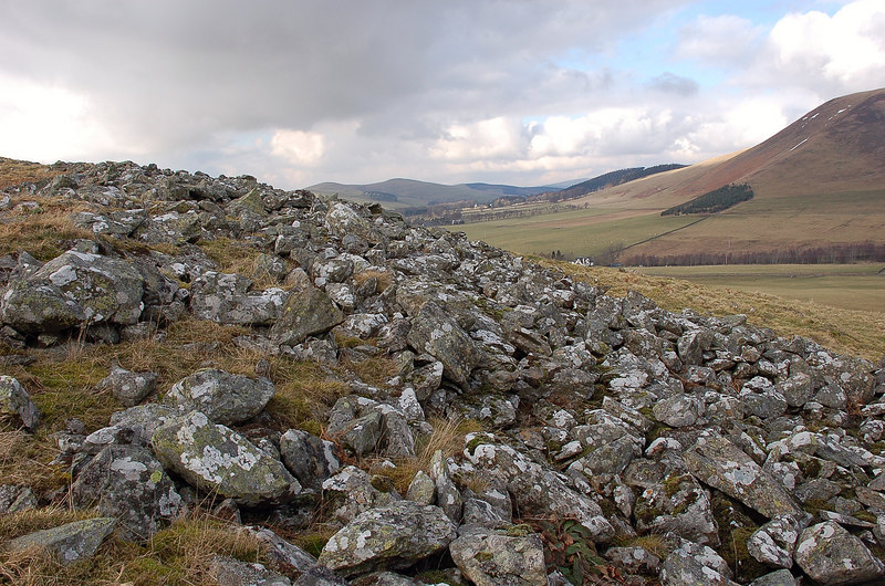 NW side of Dreva Hill Fort Part of the fringe of stones around the hill fort; Ratchill Hill is in the background.